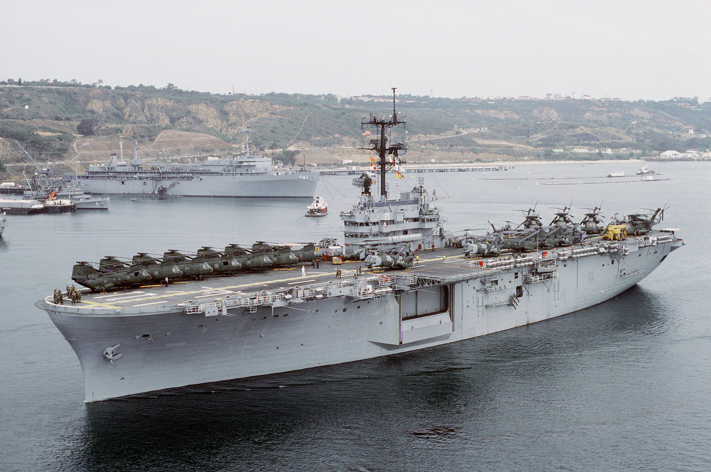 The U.S. Navy amphibious assault ship USS New Orleans (LPH-11) underway in San Diego Bay, California (USA), on 16 June 1988. Sikorsky CH-53E Sea Stallion and Boeing CH-46 Sea Knight helicopters line the flight deck. In the background are the submarine tender USS McKee (AS-41) and the submarine rescue ship USS Florikan (ASR-9).